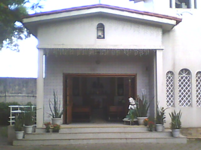 Chapel of the Holy "St. George", located at the headquarters of Sport Club Corinthians Paulista